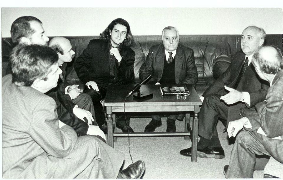 With Gorbachev and Prigogine, 1992